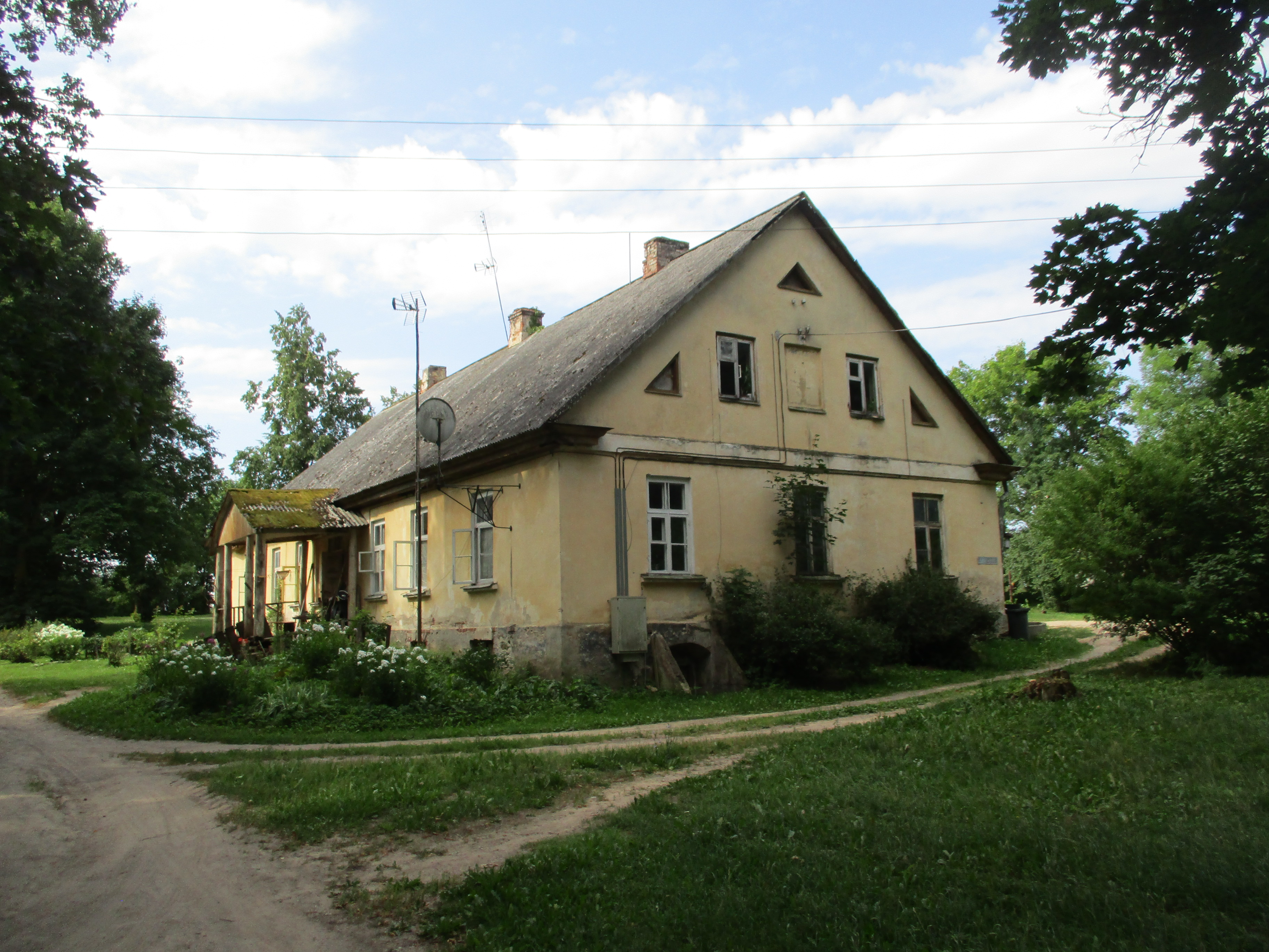 Annenieki Manor house.